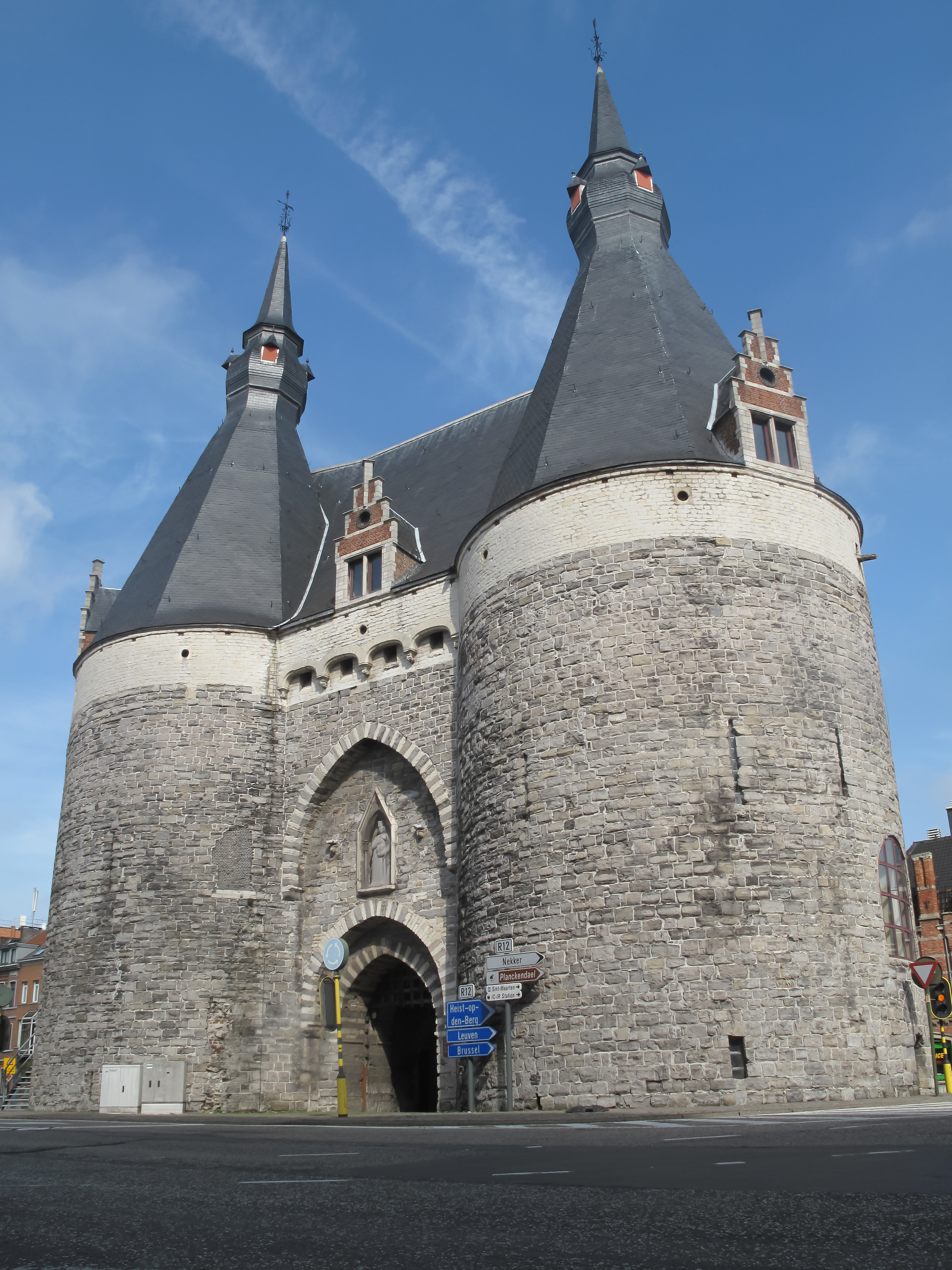 Mechelen, city gate: de Brusselpoort RM3411